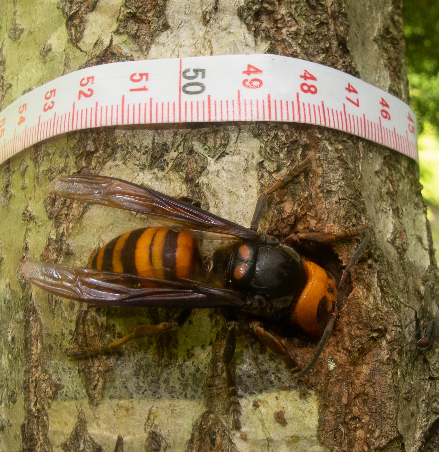 Queen of Japanese giant hornet, Vespa mandarinia japonica